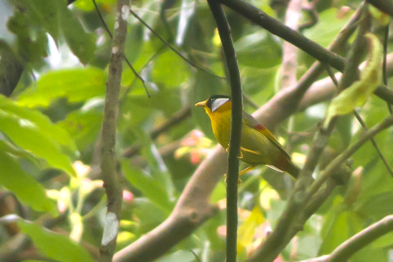 The species Silver-eared Mesia had been photographed from Mahananda WLS in West Bengal, India on 09.05.2016.